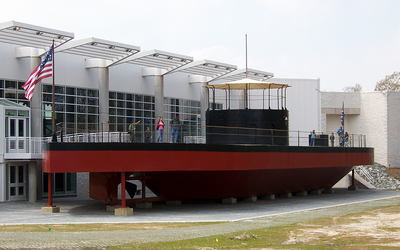 Replica of the U.S.S. Monitor, Mariners' Museum, Newport News.